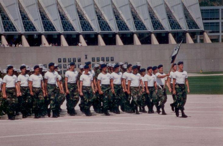 Cadet Lt Col Timothy Kane leads Guts squadron during basic cadet training